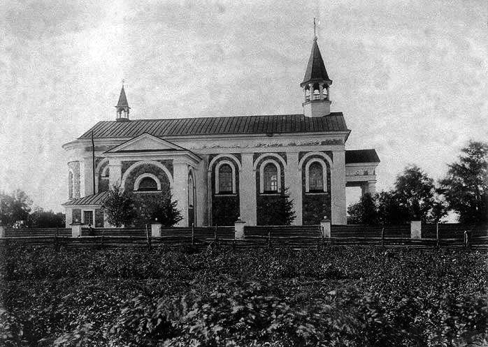 Catholic church of the Assumption of Mary in Zhaludok